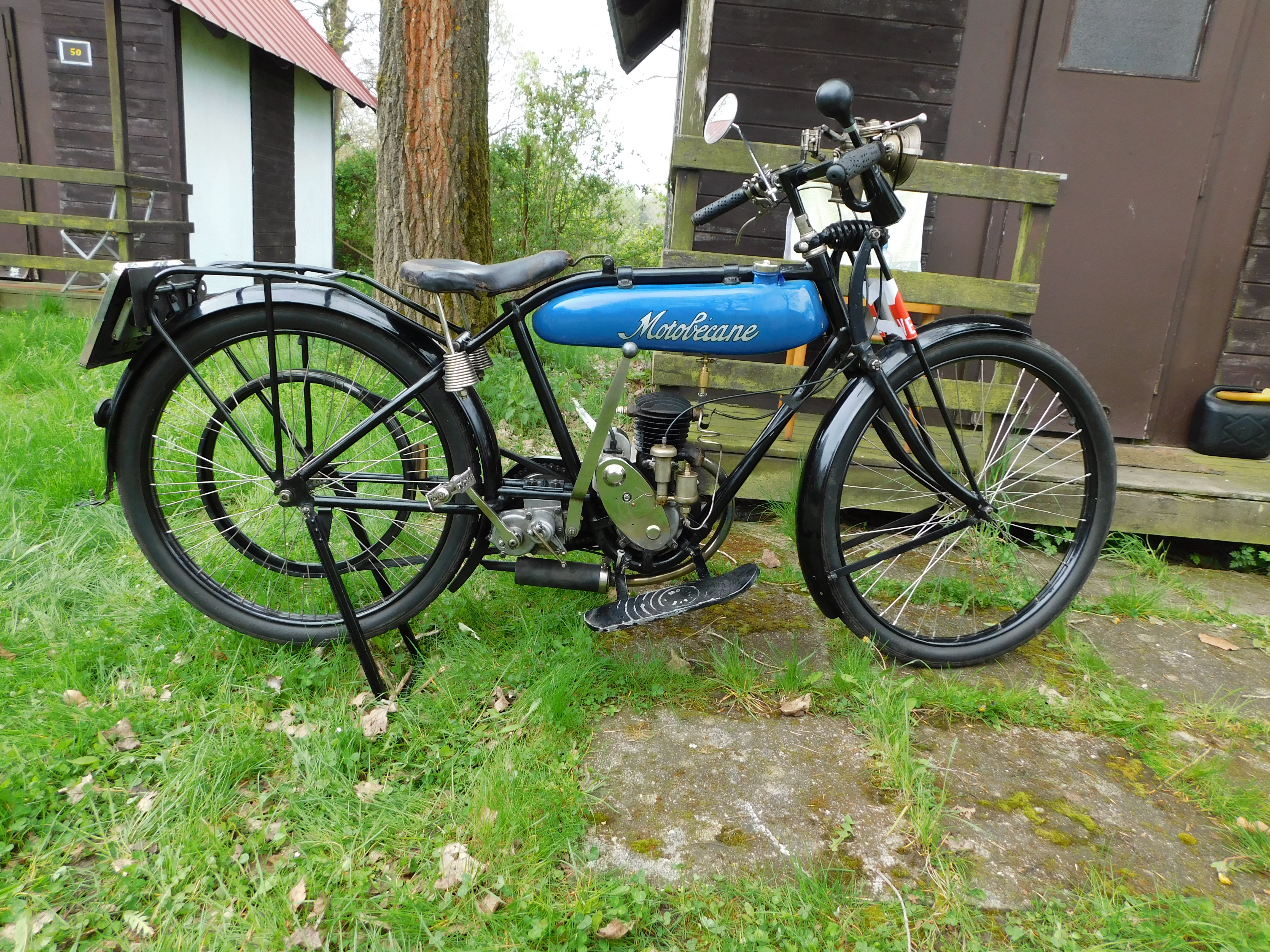 Motobecane MB2 (1925) during Veteran Rallye Křivonoska